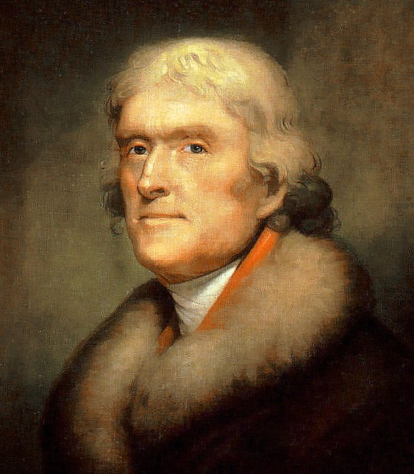 Thomas Jefferson by Rembrandt Peale: (1805) [cropped]